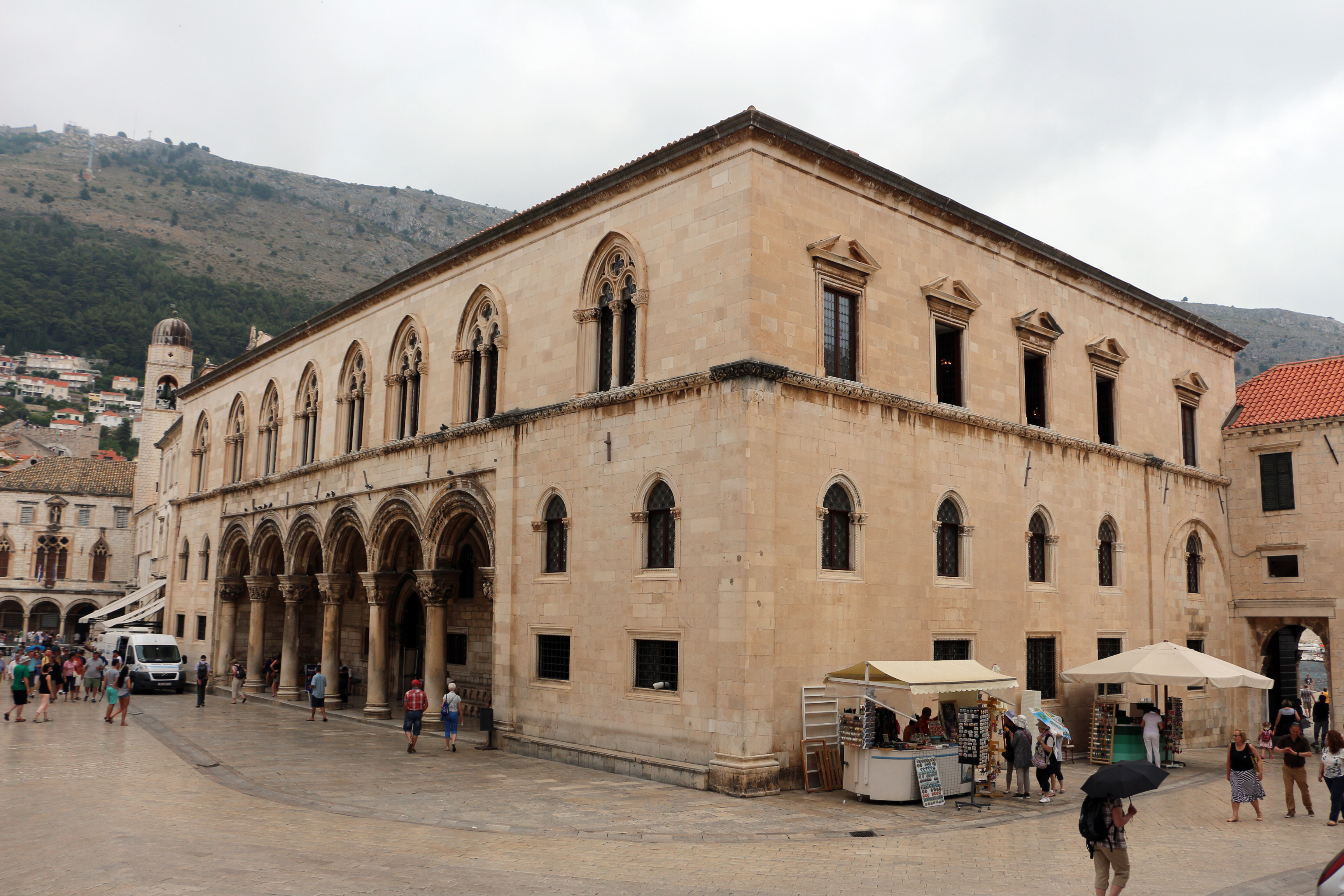 Rector's palace